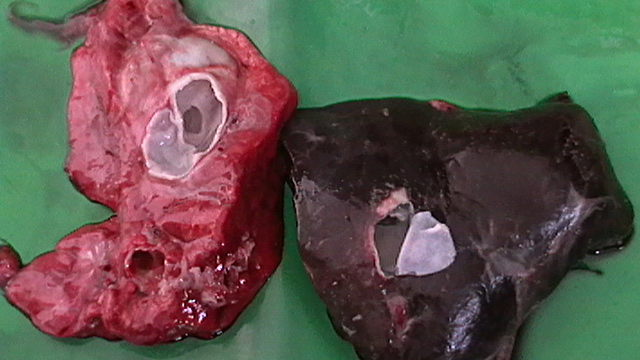 2 Hydatid cysts in lung of sheep, open cyst